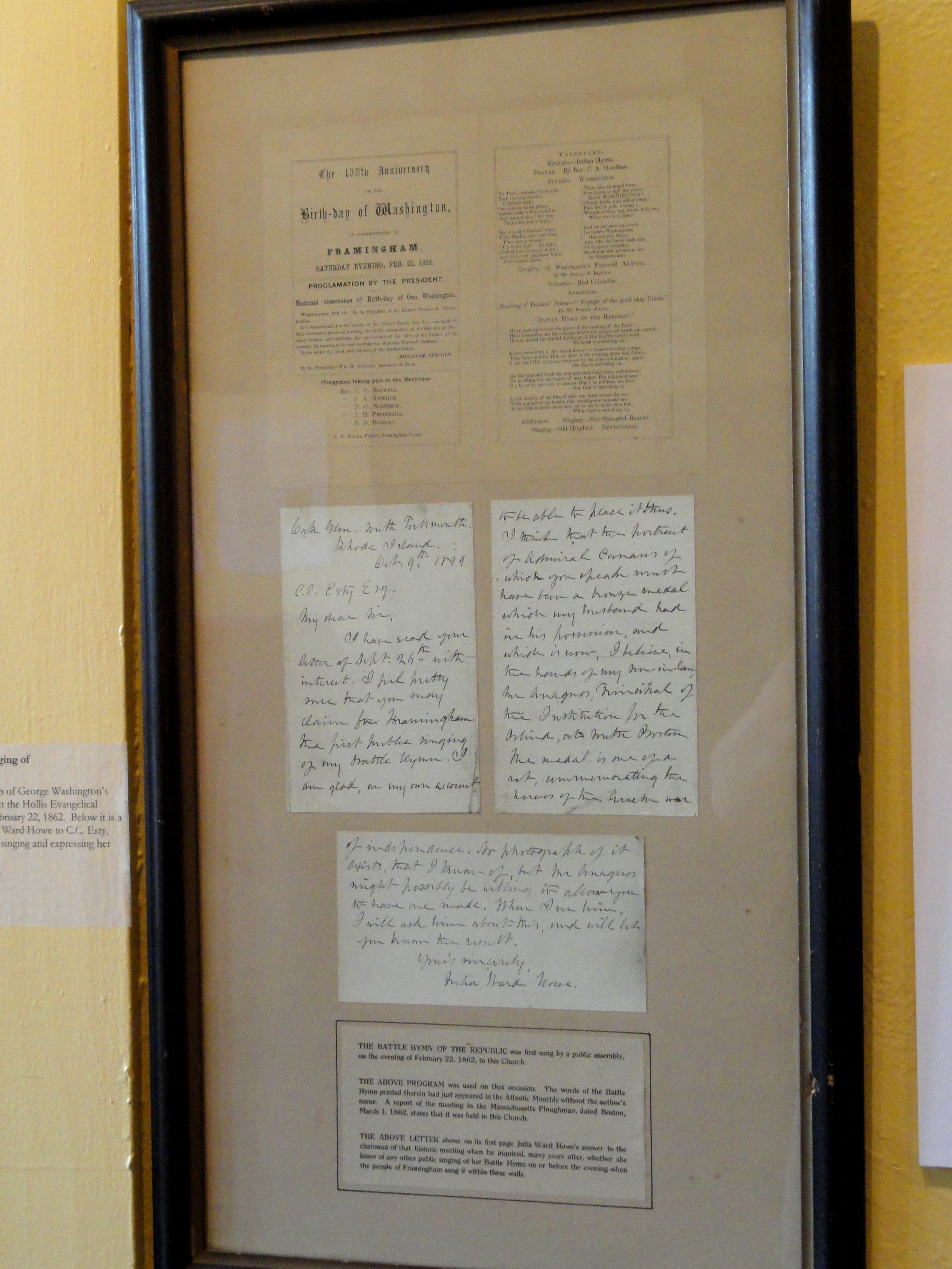 First public performance of the Battle Hymn of the Republic. Exhibit in the Framingham History Center, Edgell Memorial Library, 3 Oak Street, Framingham, Massachusetts, USA.